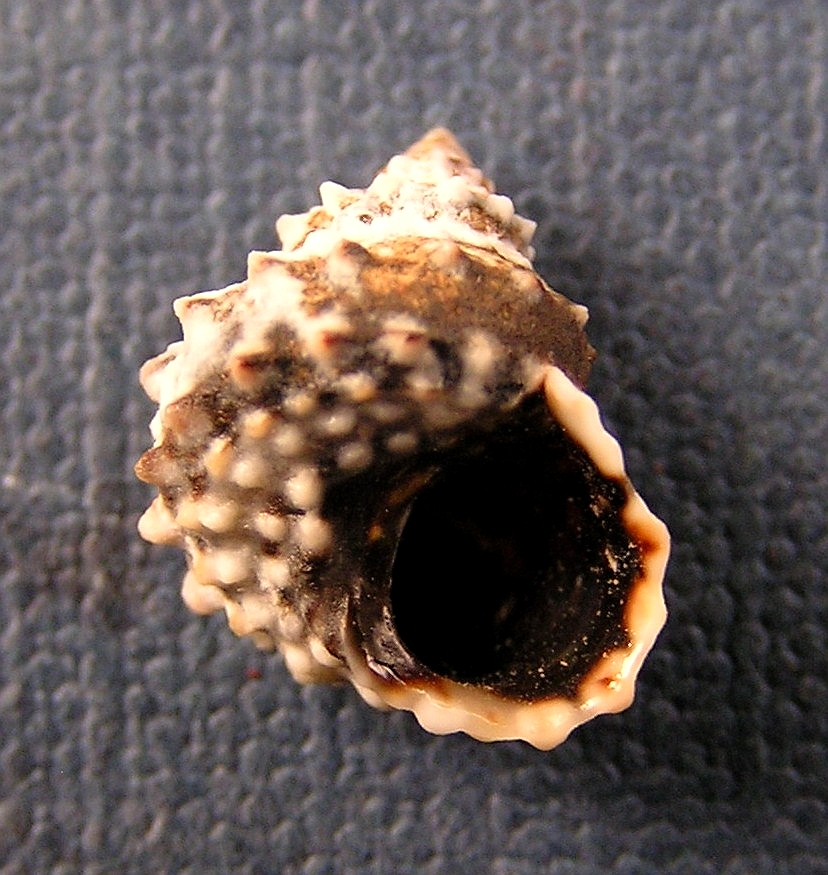 Cenchritis nodulosus Pfeiffer, 1839 , a periwinkle from the family Littorinidae; Bahamas